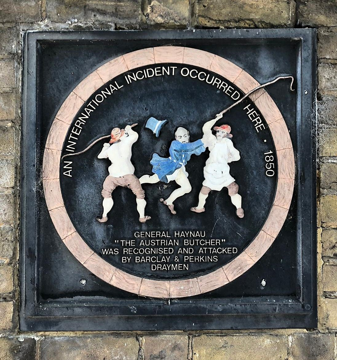 Commemorative plaque on Park Street, Southwark, London. It commemorates an incident in 1850 involving Julius Jacob von Haynau (1786–1853), an Austrian general who was prominent in suppressing insurrectionary movements in Italy and Hungary in 1848 and later. Haynau was visiting the Anchor Brewery in Southwark (then owned by Barclay, Perkins & Co.) when he was recognised by two draymen who were working there.